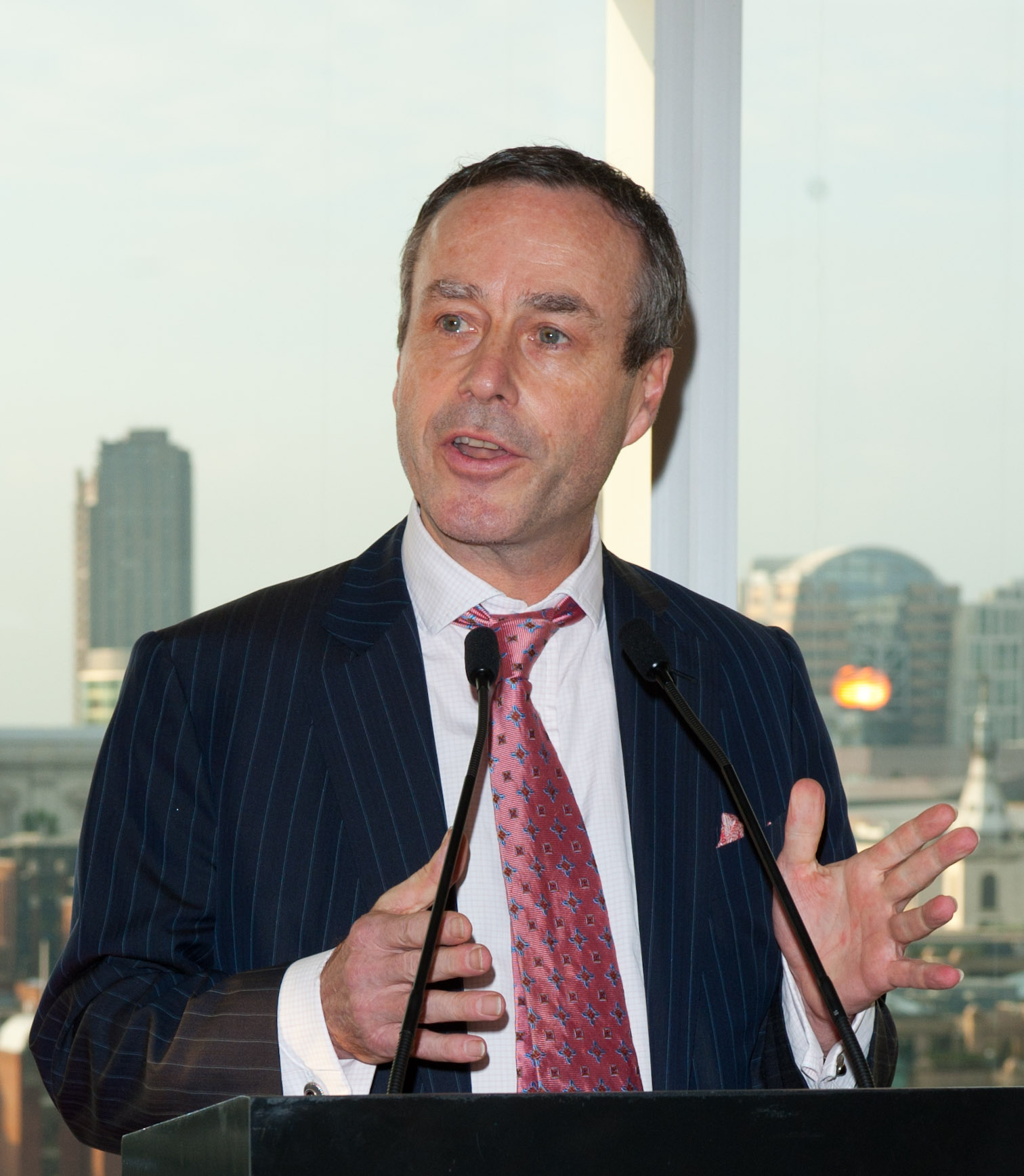 Financial Times editor Lionel Barber making a speech at the paper's 125th anniversary party in London.